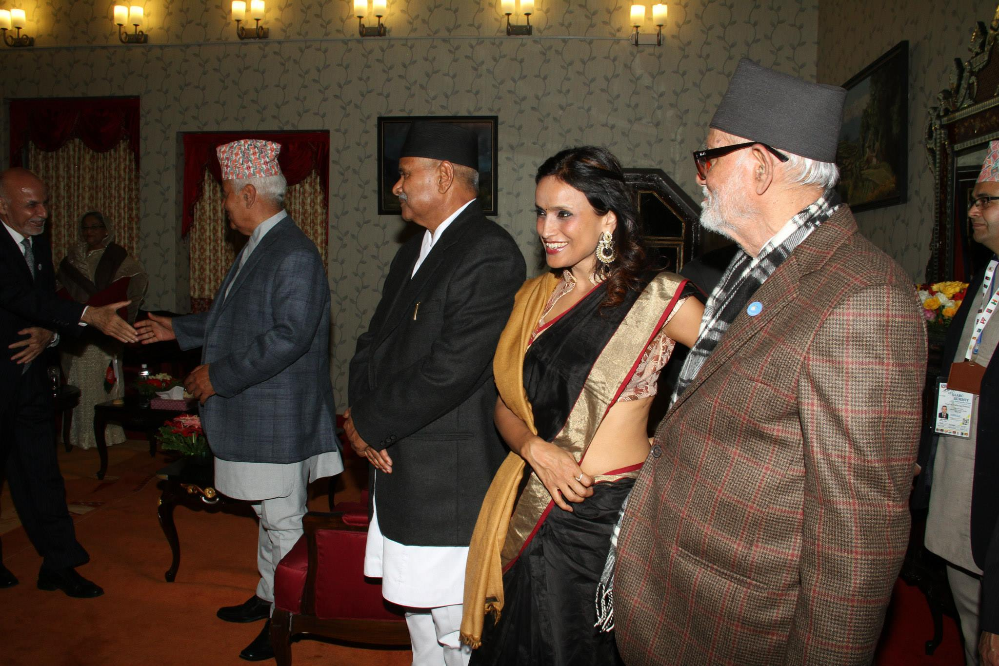 saarc 2014